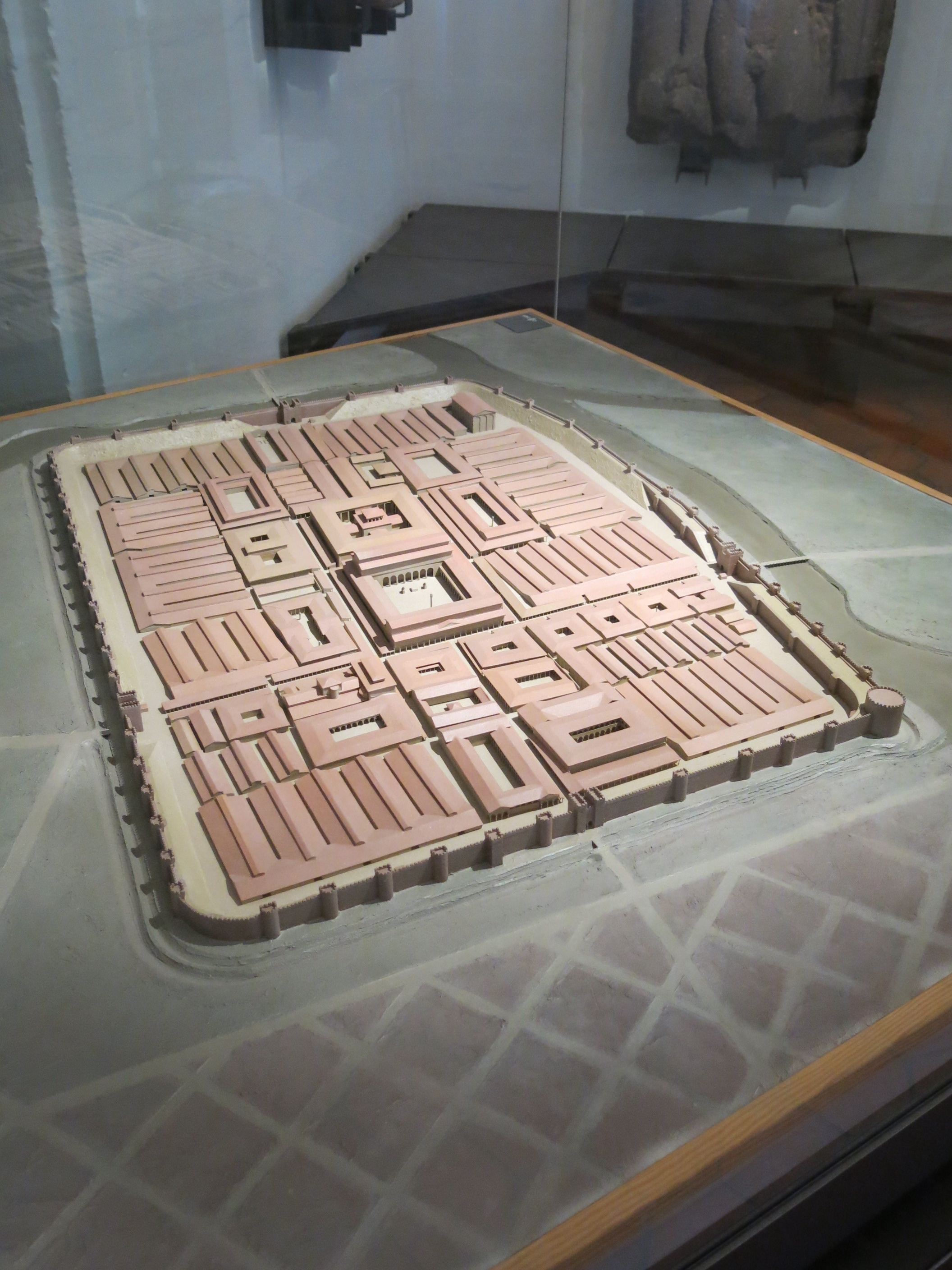 Model of the Roman town of Argentoratum at the 4th centure after J.-C. in the archeological museum of Strasbourg (Bas-Rhin, France). Length 530m * width 375m. The South-East is on the right with the Ill river.